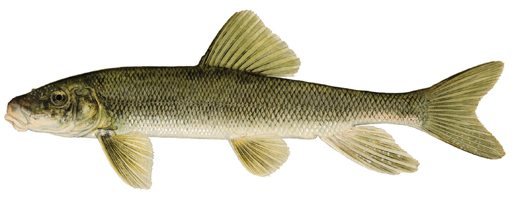 White Sucker (Catostomus commersoni)